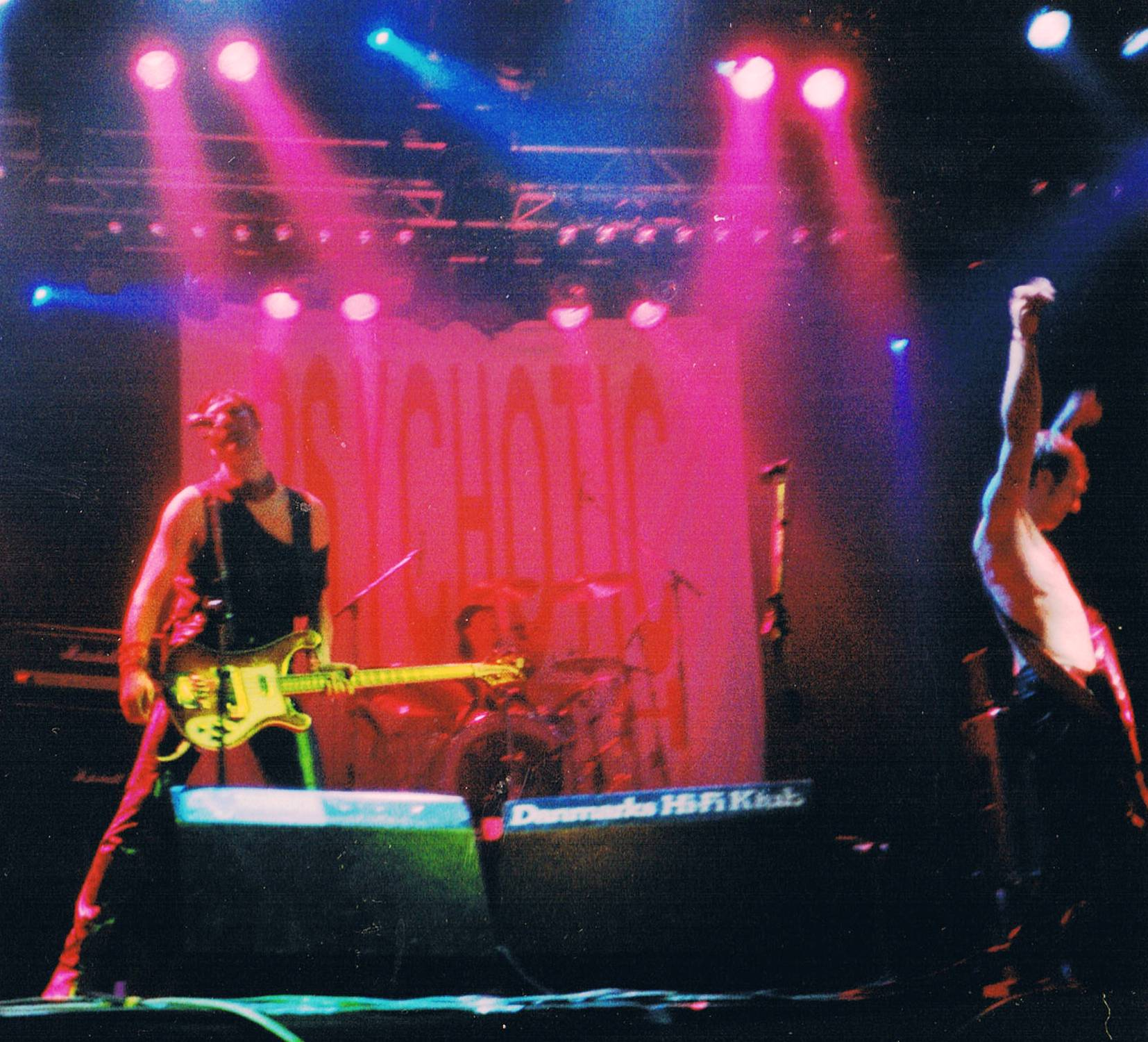 Swedish band Psychotic Youth performing at the Roskilde Festival june 1990.